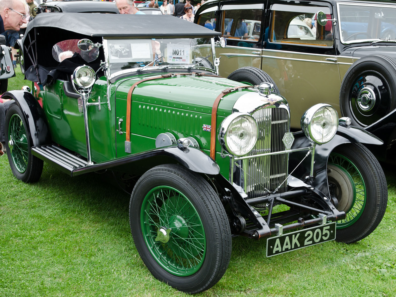 Lagonda Rapier 4-seater tourer 1935(DVLA) first registered manufactured 1935, 1104ccHebden Bridge Vintage Weekend 04/08/2013